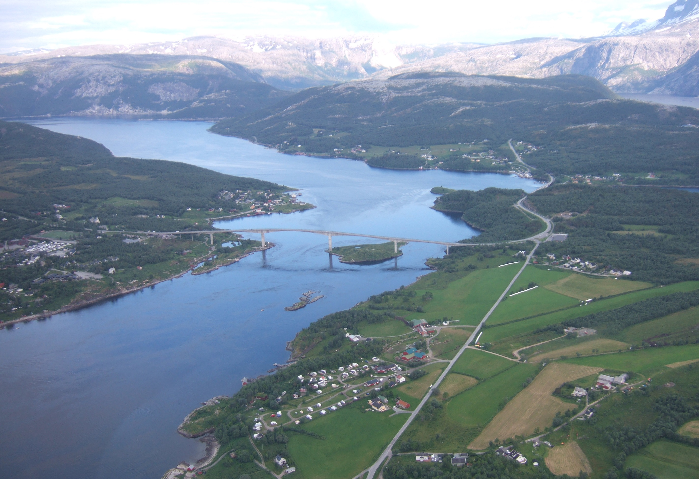 Saltstrømen in Bodø, Nordland, Norway. Saltstraumen is a small strait with the strongest tidal current in the world.